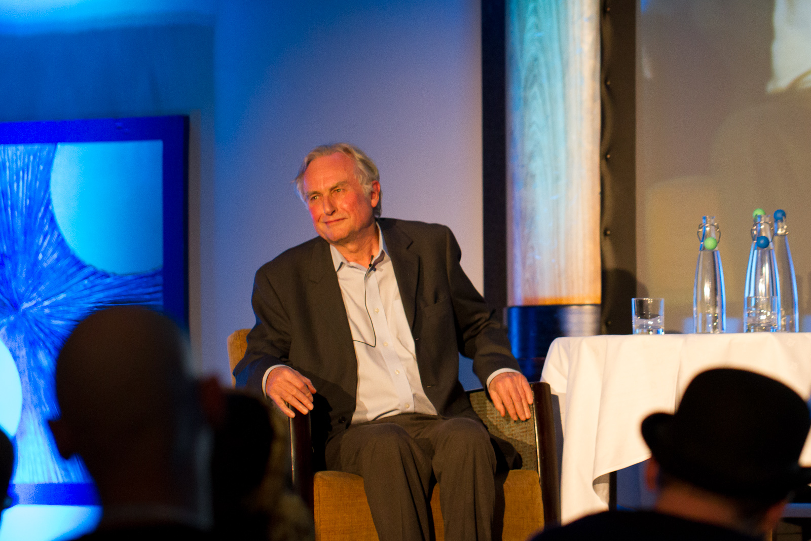 Richard Dawkins at QED 2013